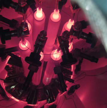 Test hardware for the KRUSTY reactor being tested at NASA GRC with a stainless steel core. This photo shows the "cold" end of the heat pipes during a test that heated the reactor electrically.